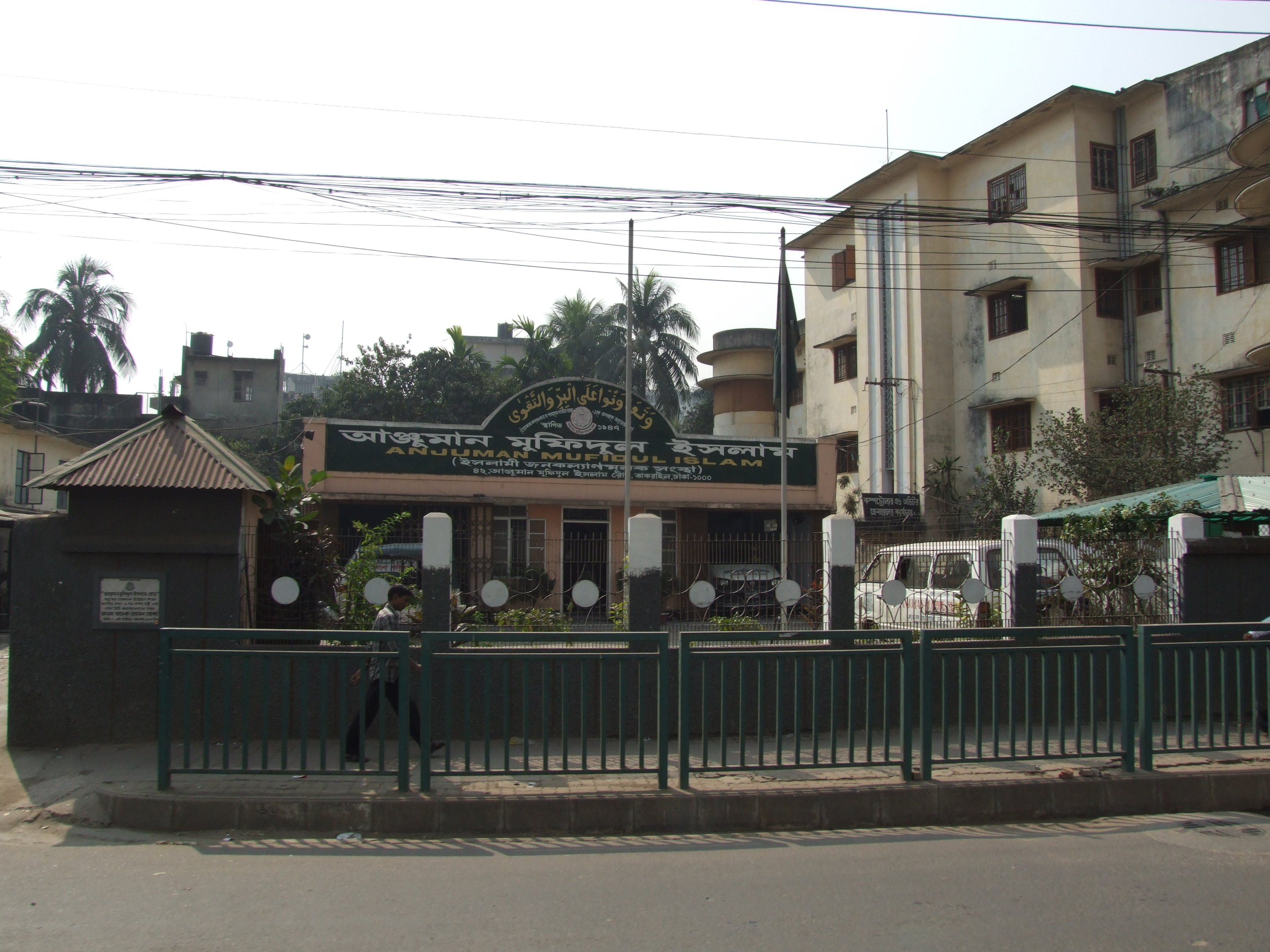 Office building of "Anjuman Mufidul Islam" an Islamic NGO in Dhaka, Bangladesh. Bangladesh